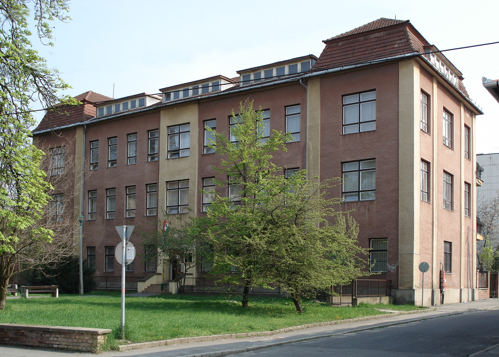 Old children hospital, Miskolc, Hungary